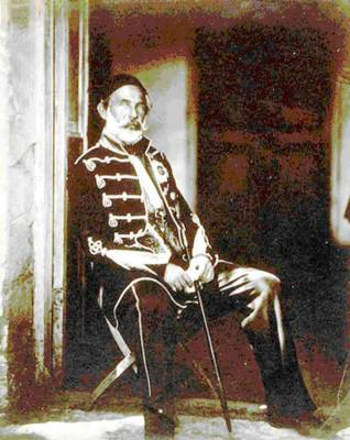 Omar Pasha